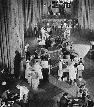 Jonas Salk administers his polio vaccine on February 26, 1957 in the Commons Room of the Cathedral of Learning at the University of Pittsburgh where the vaccine was created by Salk and his team.